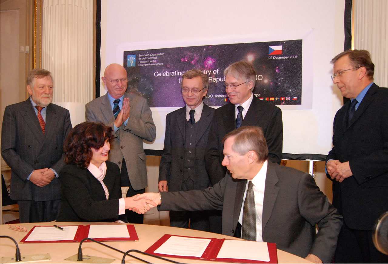 Miroslava Kopicova signs ESO agreement.